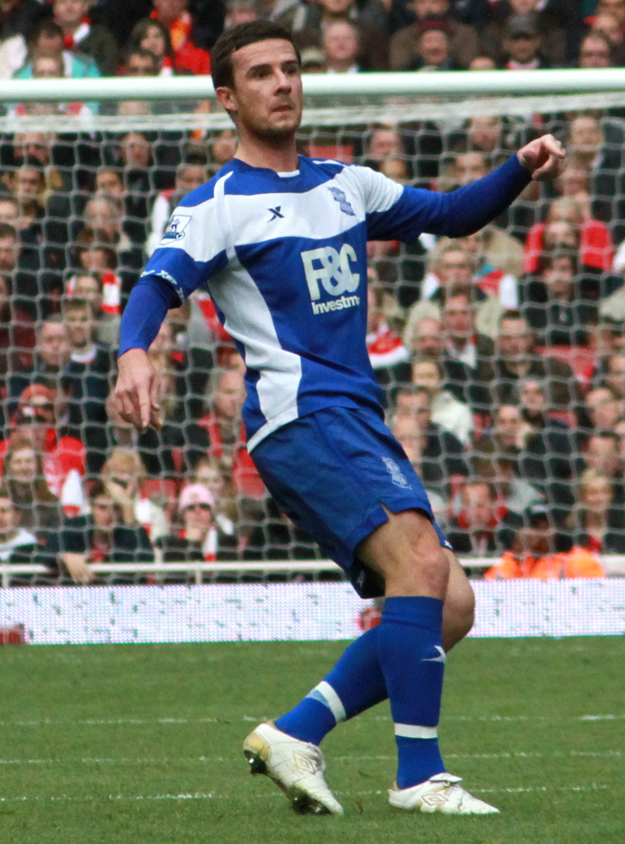 Arsenal v Birmingham City The Emirates 16 October 2010 (2-1)